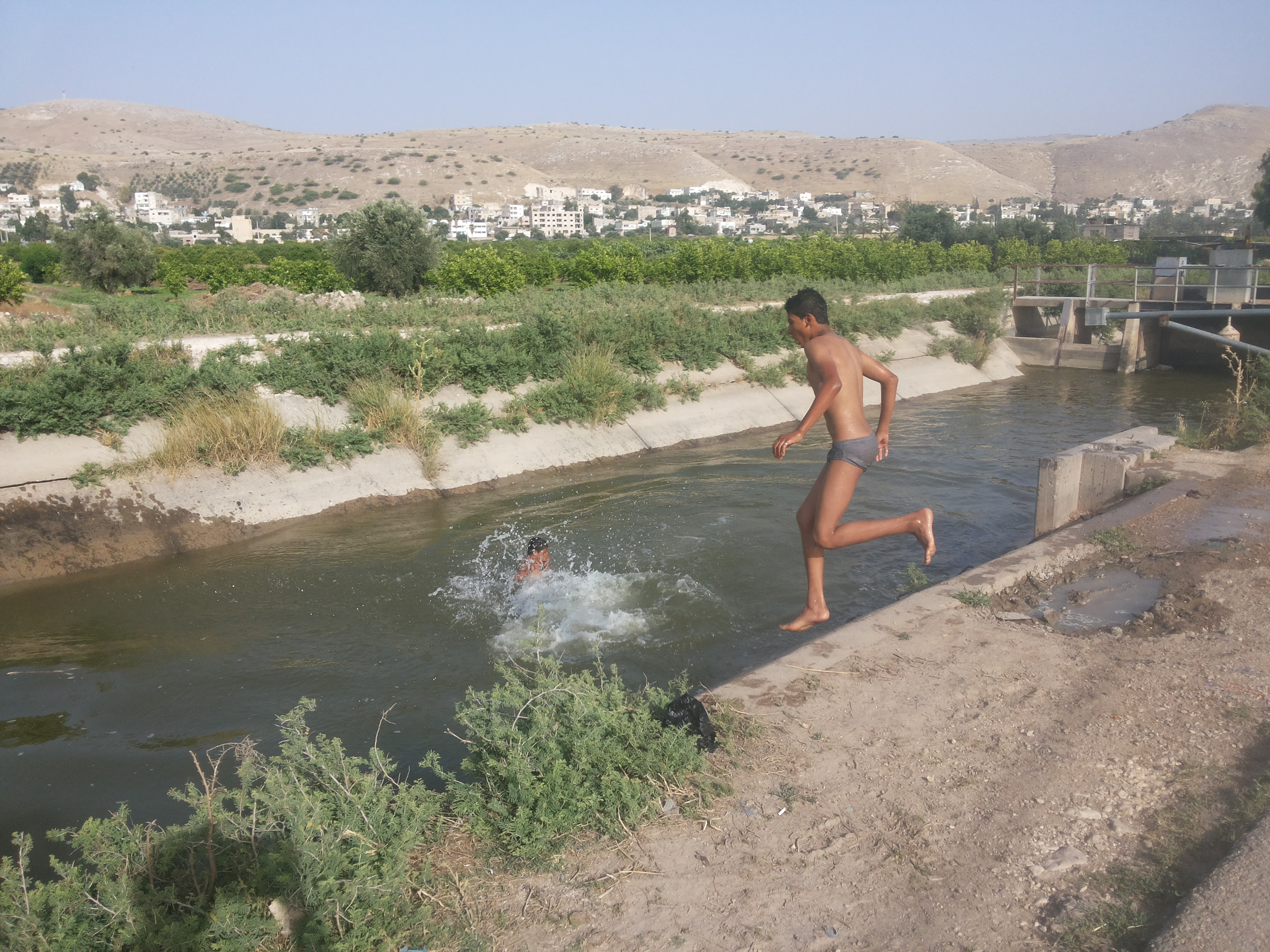 King Abdalla I Canal in Jordan valley, Irbid Governorate, Jordan.